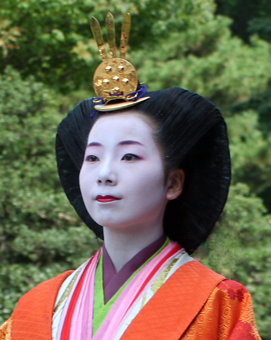 Ōsuberakashi, or hair style for aristocrat women, in Heian period Japan. Decorated with saishi ornamental hairpin. Taken at Jidai Matsuri parade in Kyoto, October 2009.